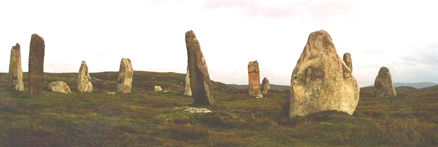 Callanish III stone circle.